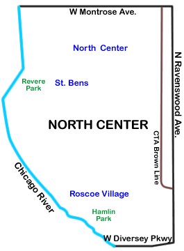 Detailed map of Chicago Community Area 05 - North Center Created with Macromedia Fireworks 4 PNG-8 Websnap adaptive color palette 192 colors Index transparency